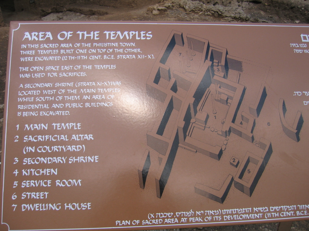 A sign about the "Area of the Temples" in the Tell Qasile archaeological site, Eretz Israel Museum, Tel Aviv, Israel.